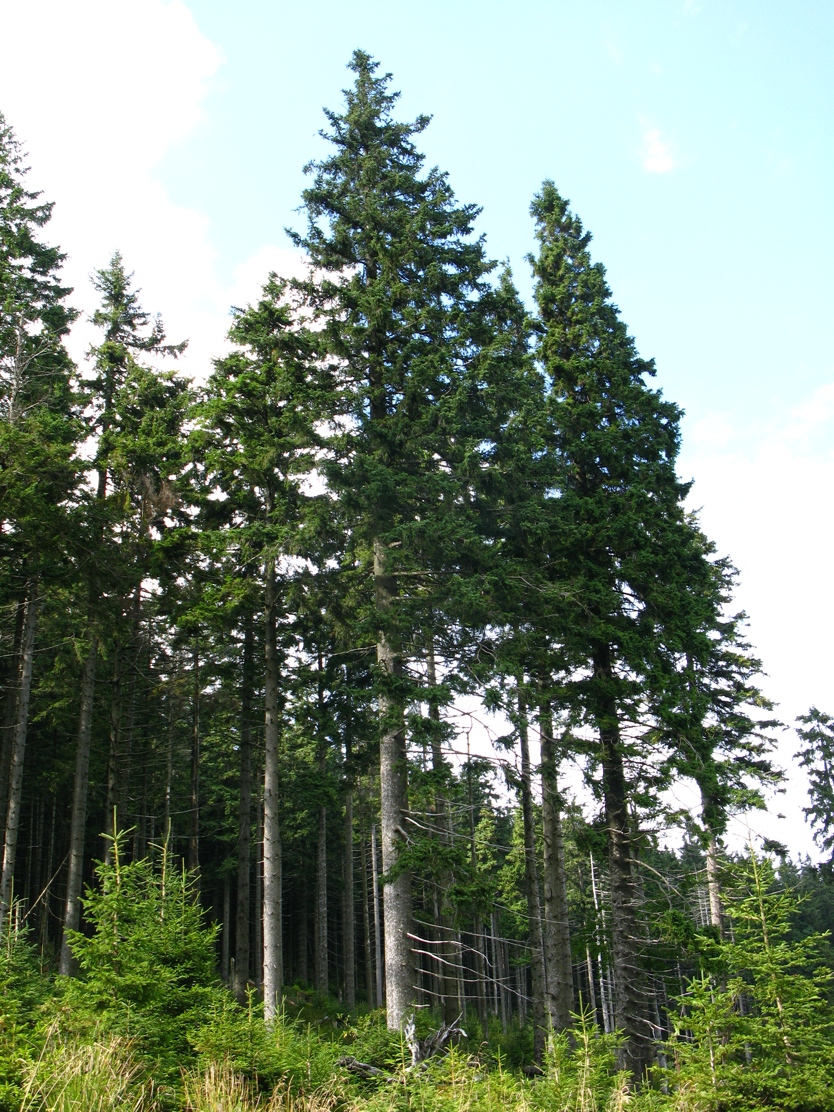 Picea abies in Karkonosze, Poland